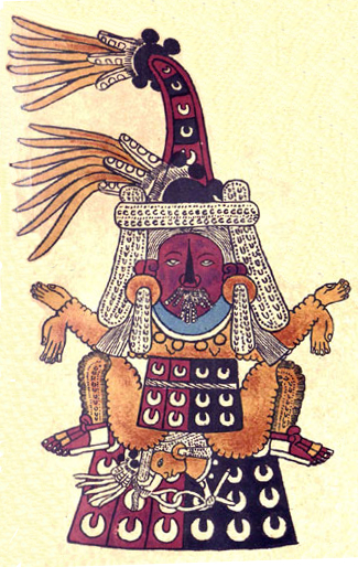 A photocopy of the original page 13 of the Codex Borbonicus, showing the 13th trecena of the Aztec sacred calendar (tonalpohualli). This 13th trecena was under the auspices of the goddess Tlazolteotl, who is portrayed wearing a flayed skin, giving birth to Cinteotl. The 13 day-signs of this trecena, starting with 1 Earthquake, 2 Flint/Knife, 3 Rain, 4 Flower, etc., are shown on the bottom row and, starting with 8 Lizard, 9 Snake, 10 Death, etc., in the column going up along the right side. Note: this page is now catalogued as page 11 due to the loss of the first two pages (as well as the last two).